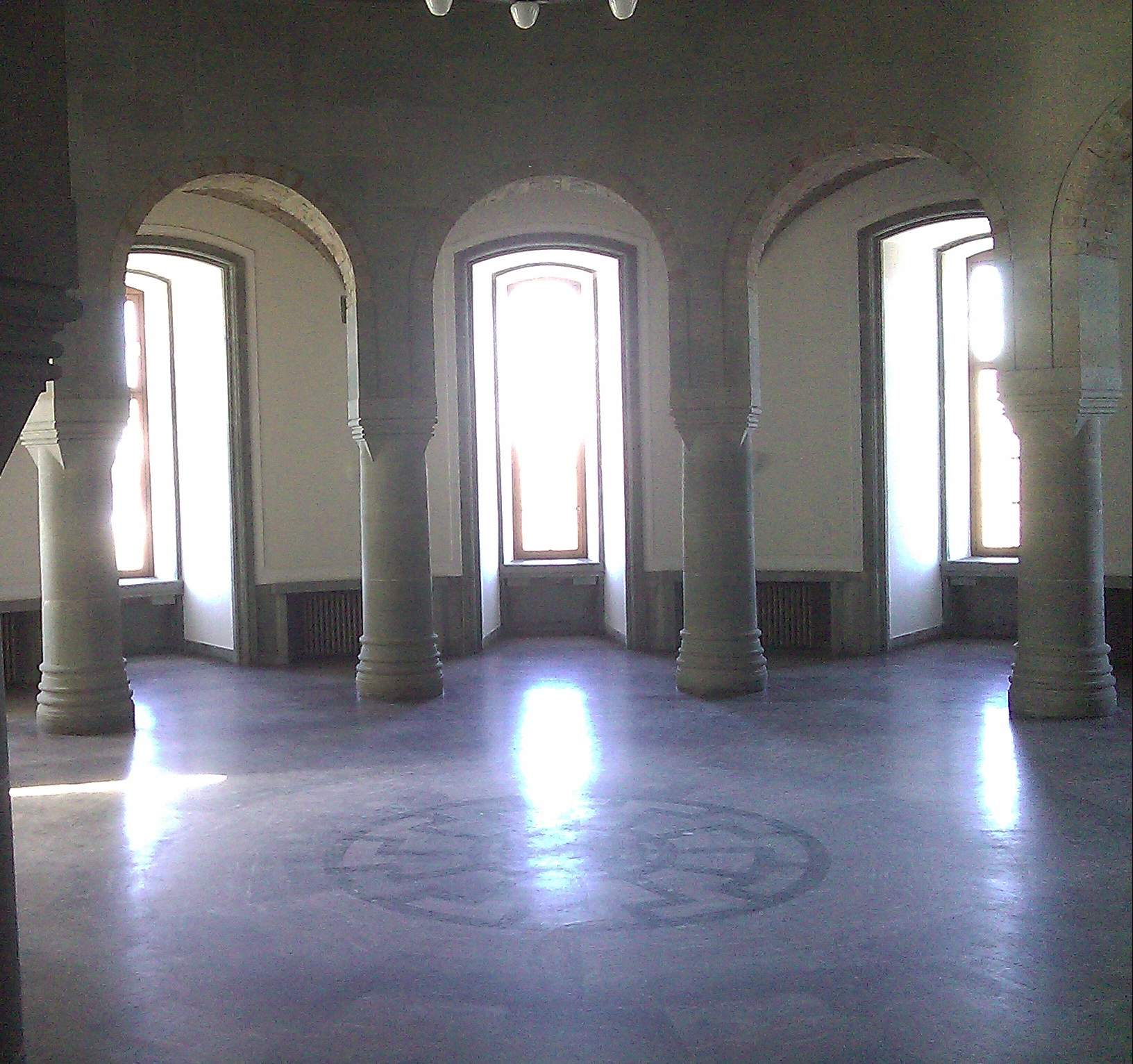 The ornament in the hall of the Wewelsburg in Büren, near Paderborn (Germany)